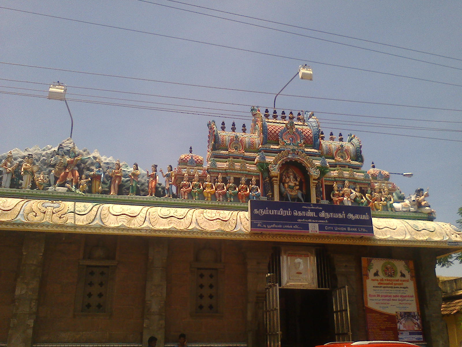 Kumbakonam Karumbayirampillayar Temple கும்பகோணம் கரும்பாயிரம்பிள்ளையார் கோயில்